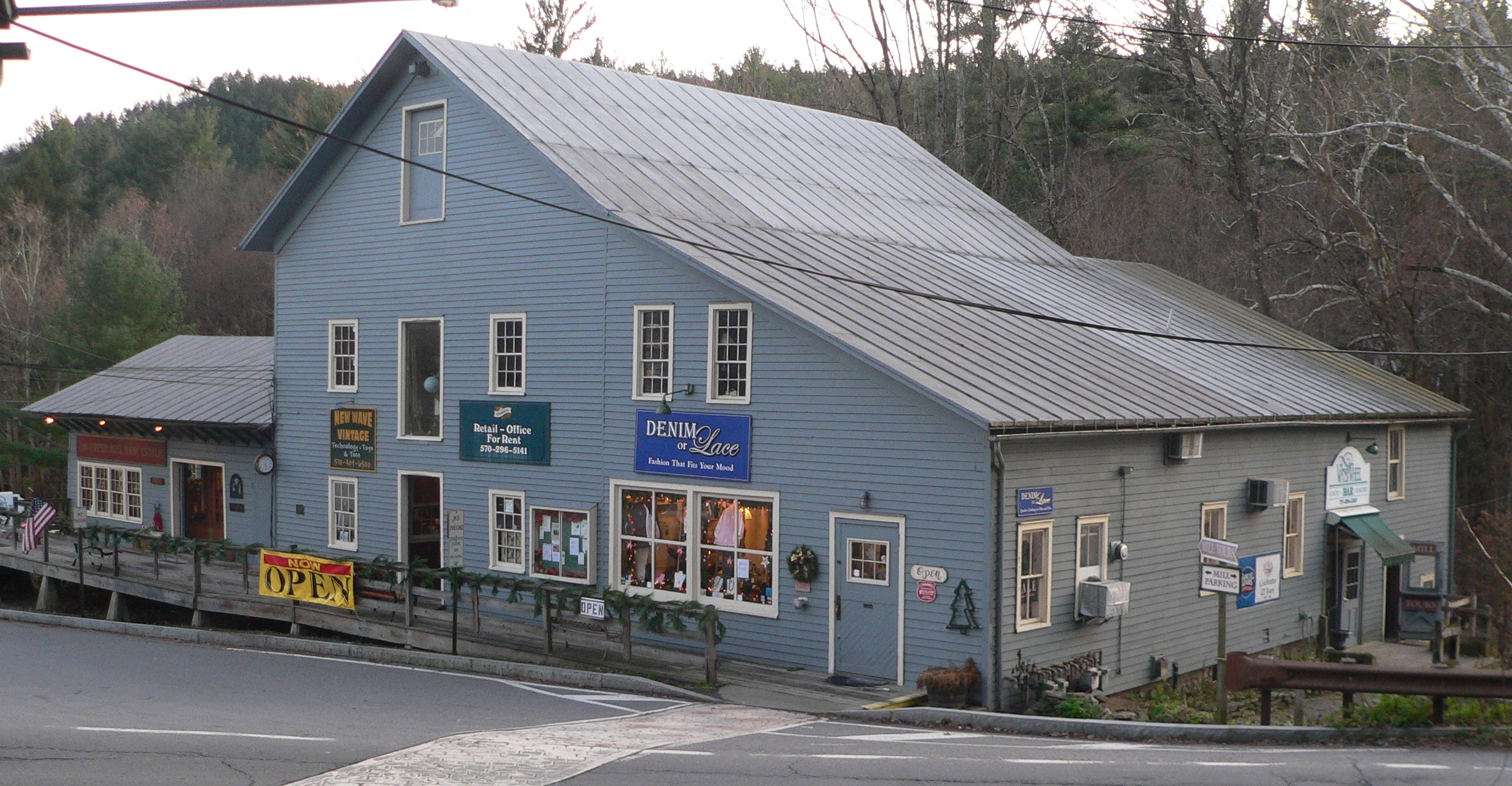 Jervis Gordon grist mill, also known as the Upper Mill, located on south side of Mill Street in Milford, Pennsylvania. The mill is part of the Jervis Gordon Grist Mill Historic District, listed in the National Register of Historic Places. View is from the north, across Mill Street.